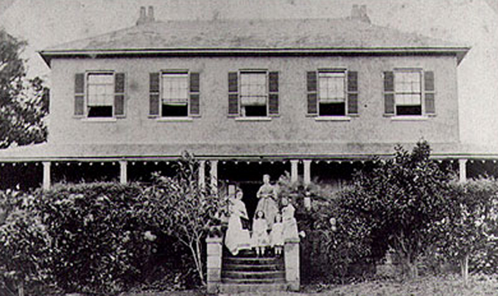 Willandra, Ryde, New South Wales, circa 1870.